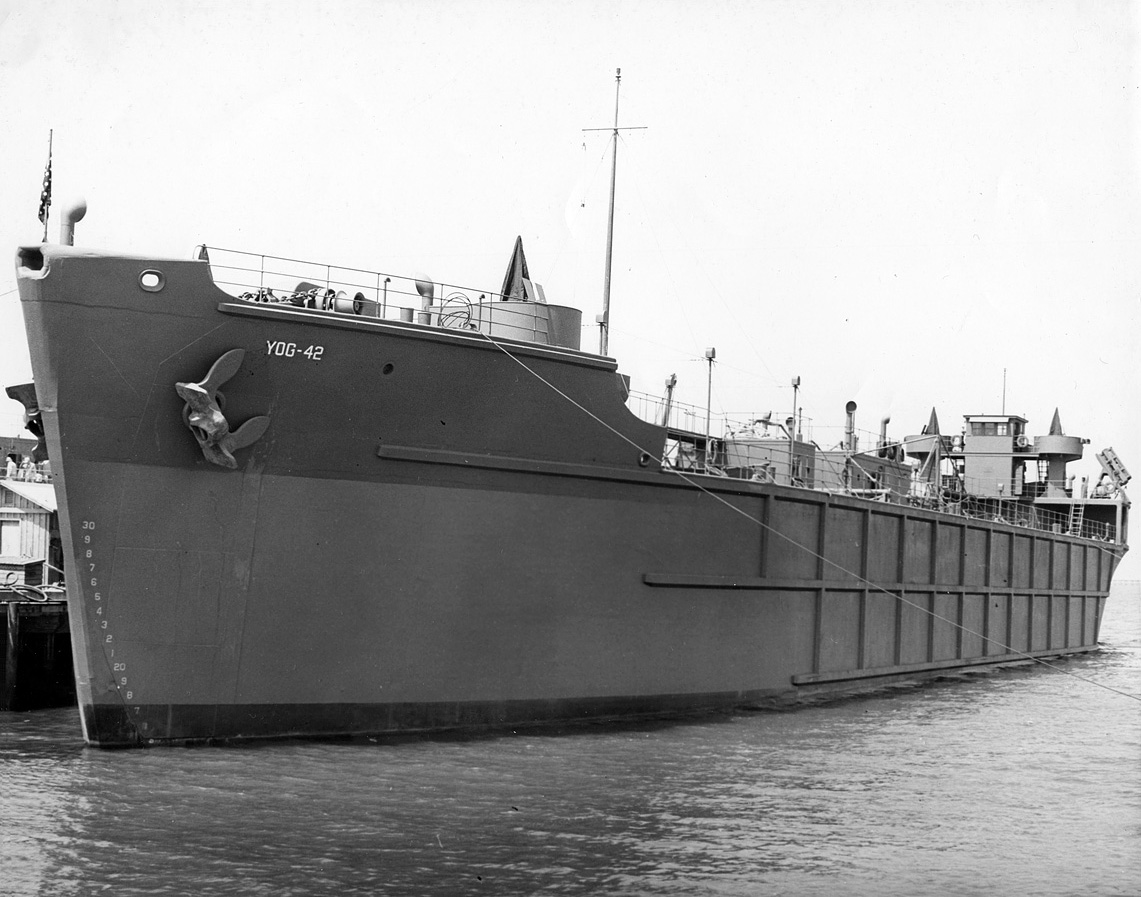 Probably shown in commission in late May 1943. She is fully fitted out and is flying a jack on the bow.